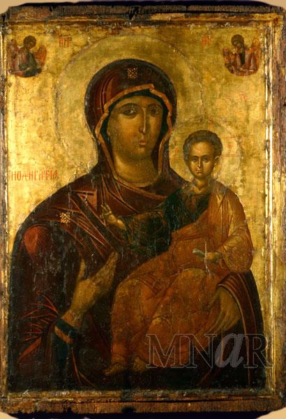 Royal icon– Virgin and Child – Hodegetria Wallachian workshop ca. 1530 Tempera on wood 103 x 74 cm